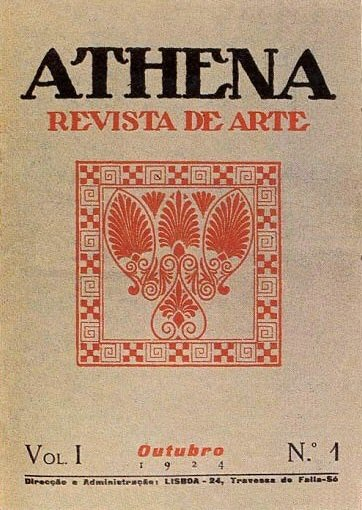 Athena Revista de Arte N.1 Outubro 1924.